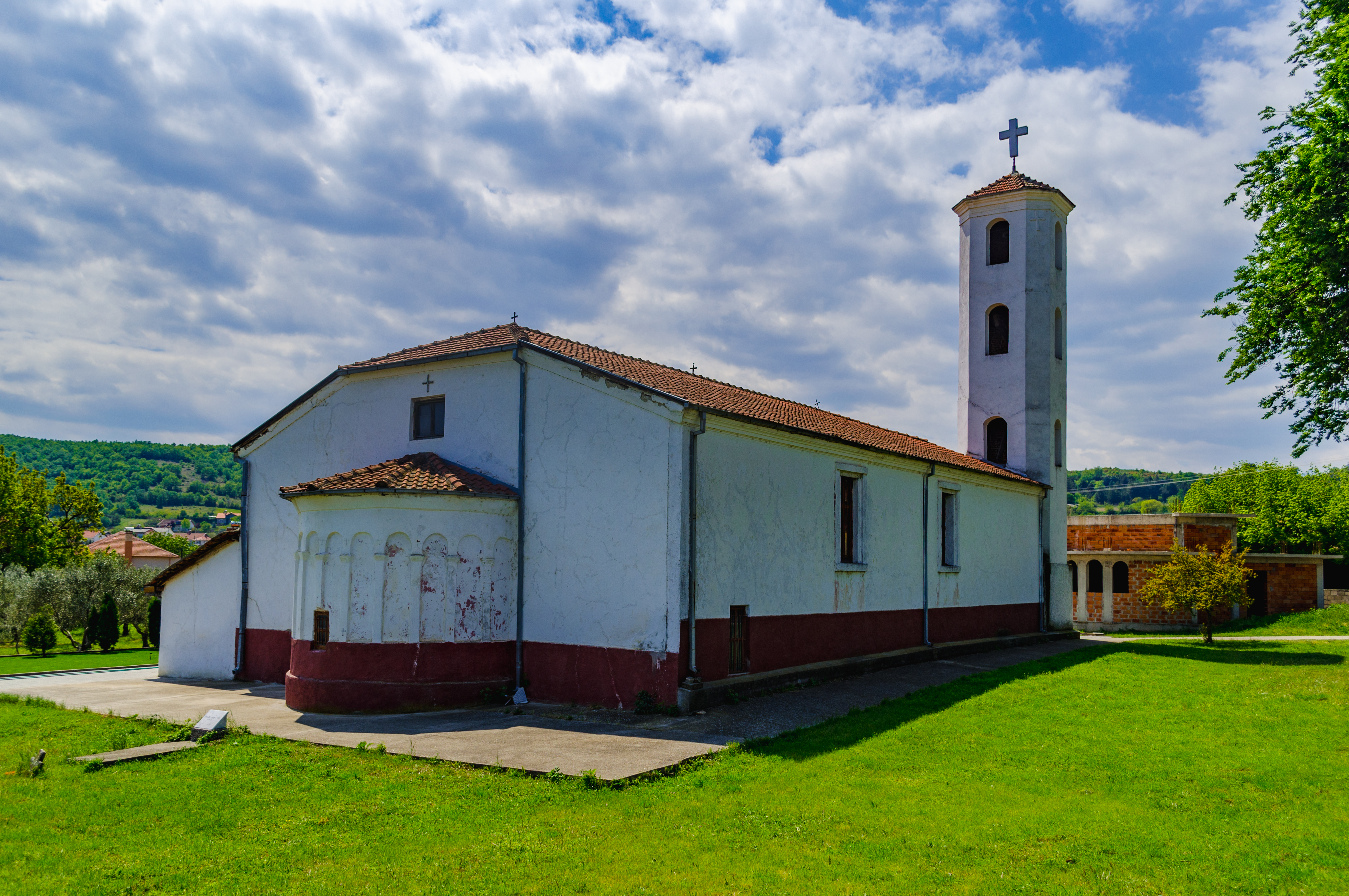 View of the St. Athanasius Church in the village Negorci